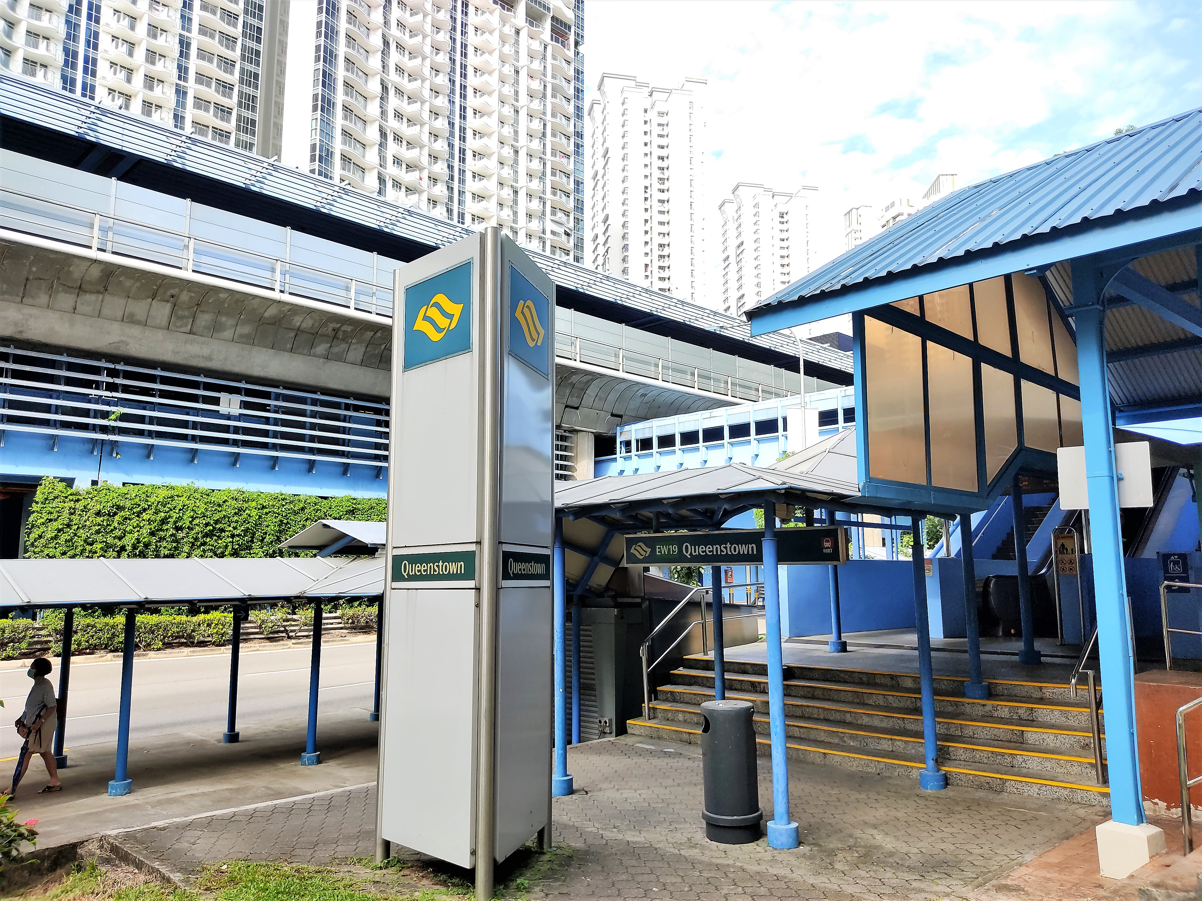 EW19 Queenstown